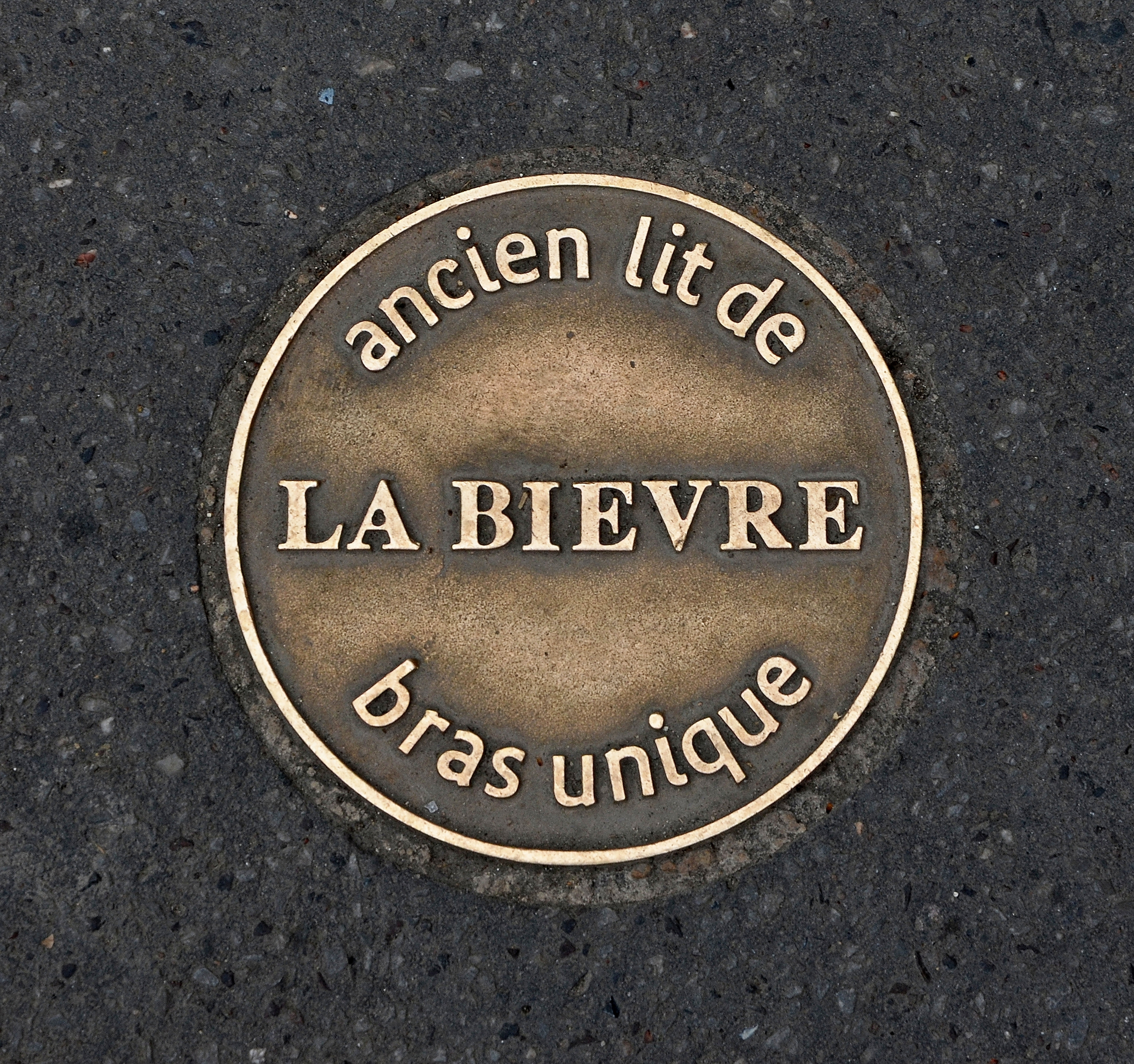 Medallion on the former course of the river Bièvre, Bd de l'Hôpital, Paris (13e)